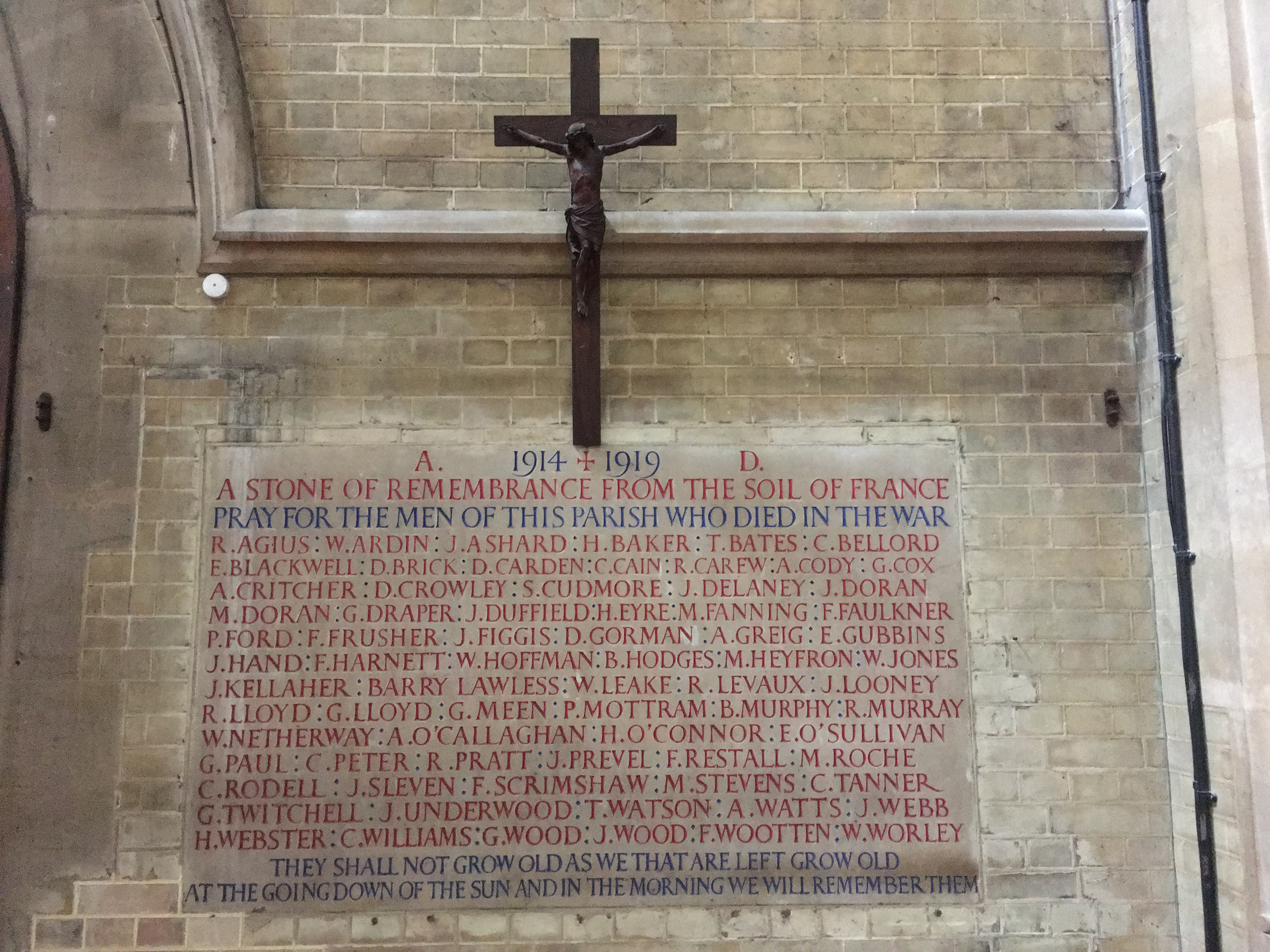 Detail of the Priory Of Our Lady Of The Rosary And St Dominic - WW1 Tablet